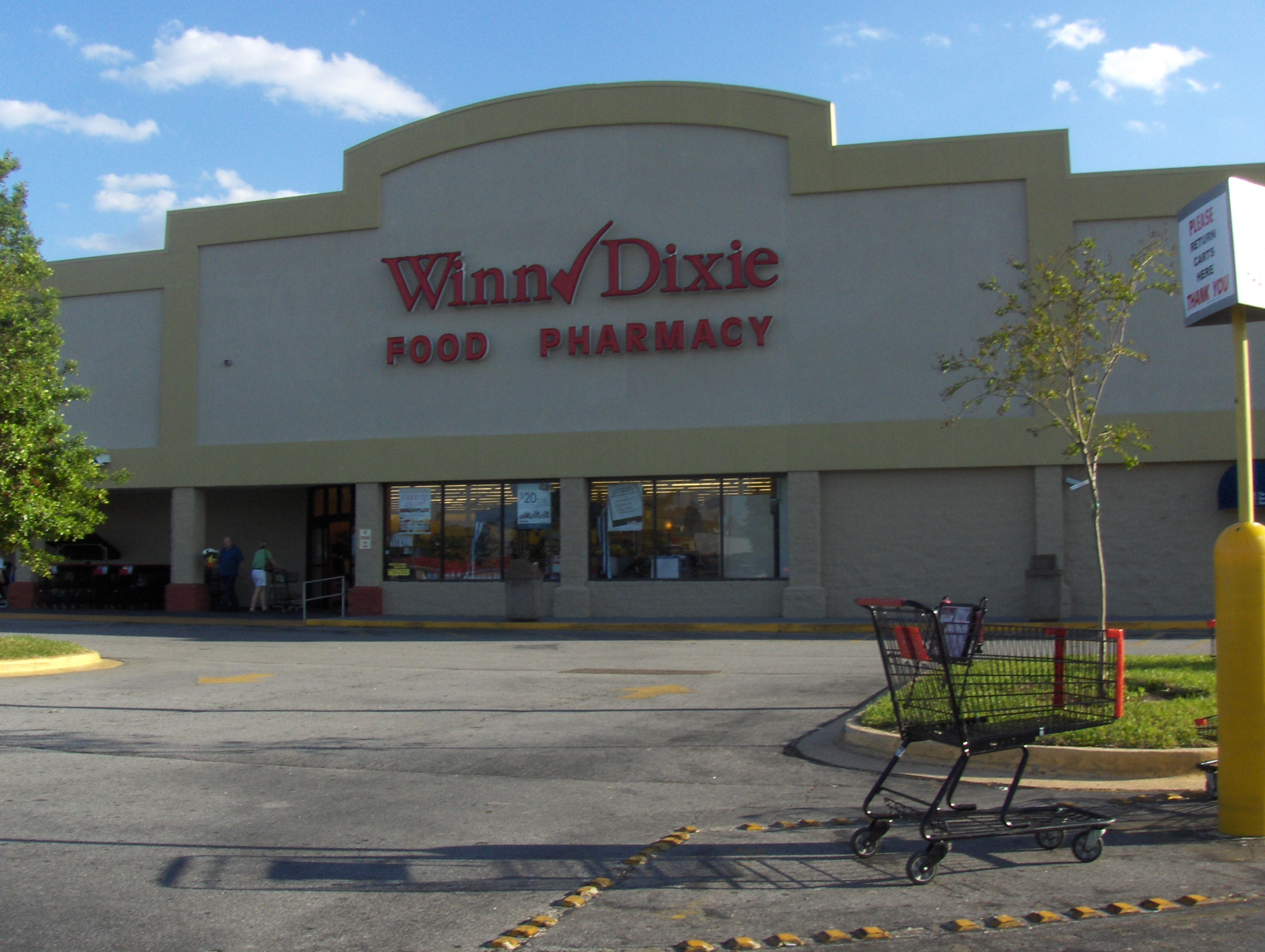 Winn Dixie supermarket. Recently remodeled store #166 in Kingsland,GA.